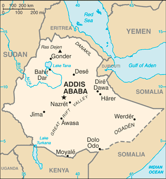 Ethiopia map from CIA World Factbook, converted from original GIF format